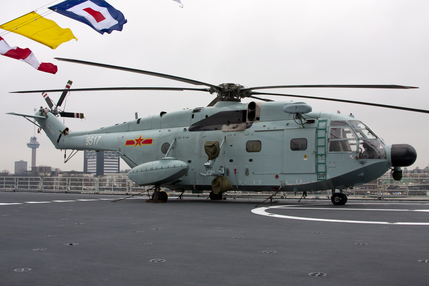 The Chinese built Super Frélon on the huge flight deck of the amphibious assault ship Changbai Shan, Rotterdam. 28 January 2015.